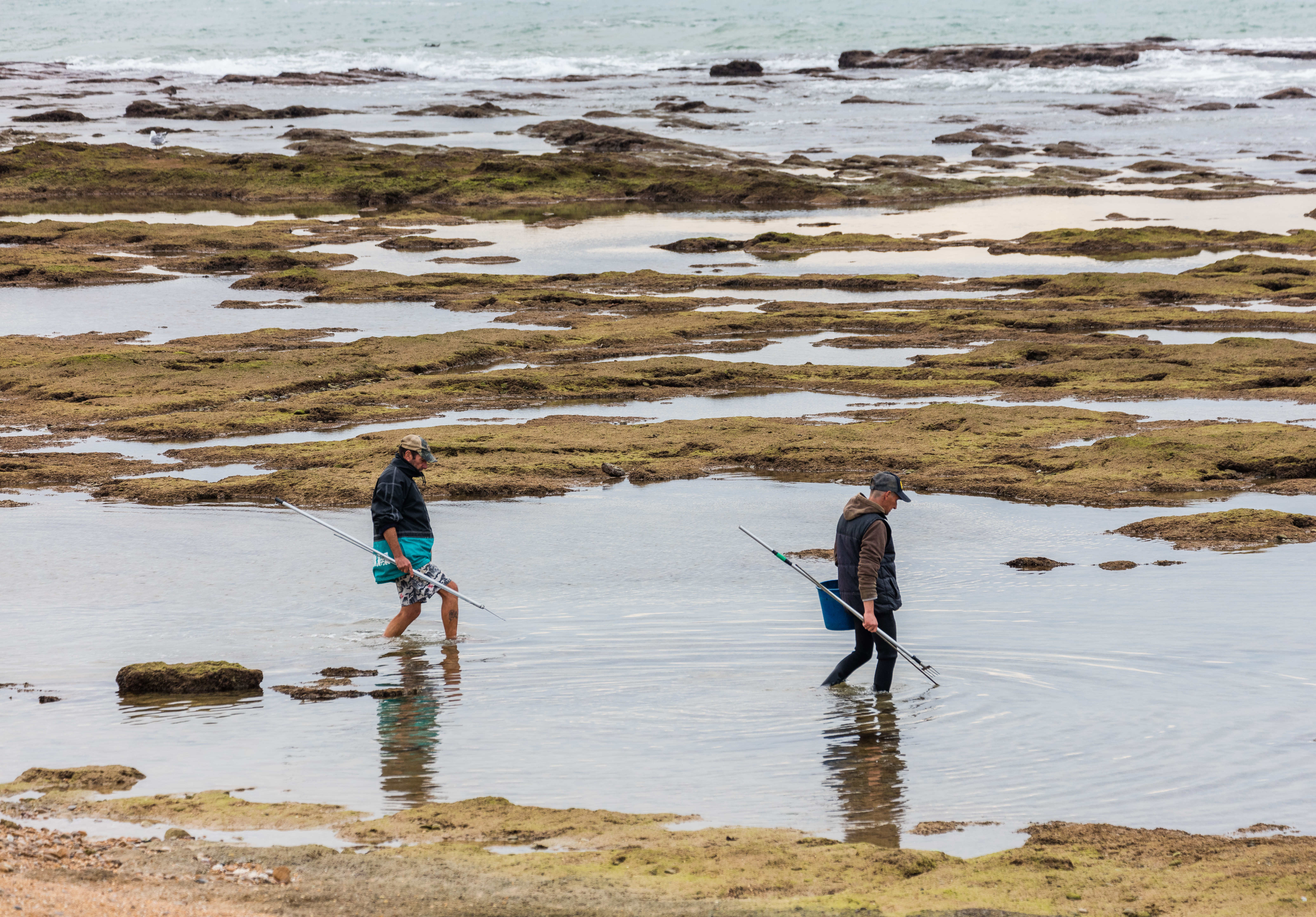 Seefood searchers, Cádiz, Spain